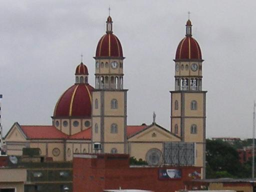 Maturin cathedral in the skyline